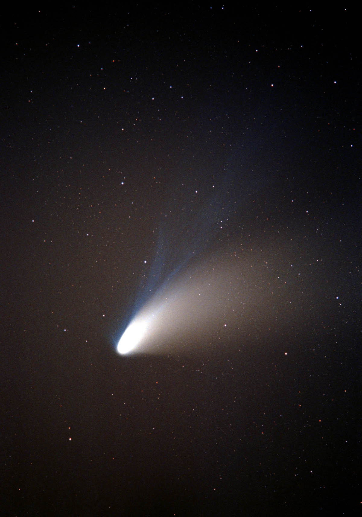 Comet Hale-Bopp. Author shot this image at Tierra del Sol in San Diego County in April, 1997. A telescope was used to guide the camera. The blue ion tail is clearly visible.